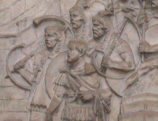 Roman soldiers: cornicen — players of the cornu (horn). From the cast of Trajan's column in the Victoria and Albert museum, London.